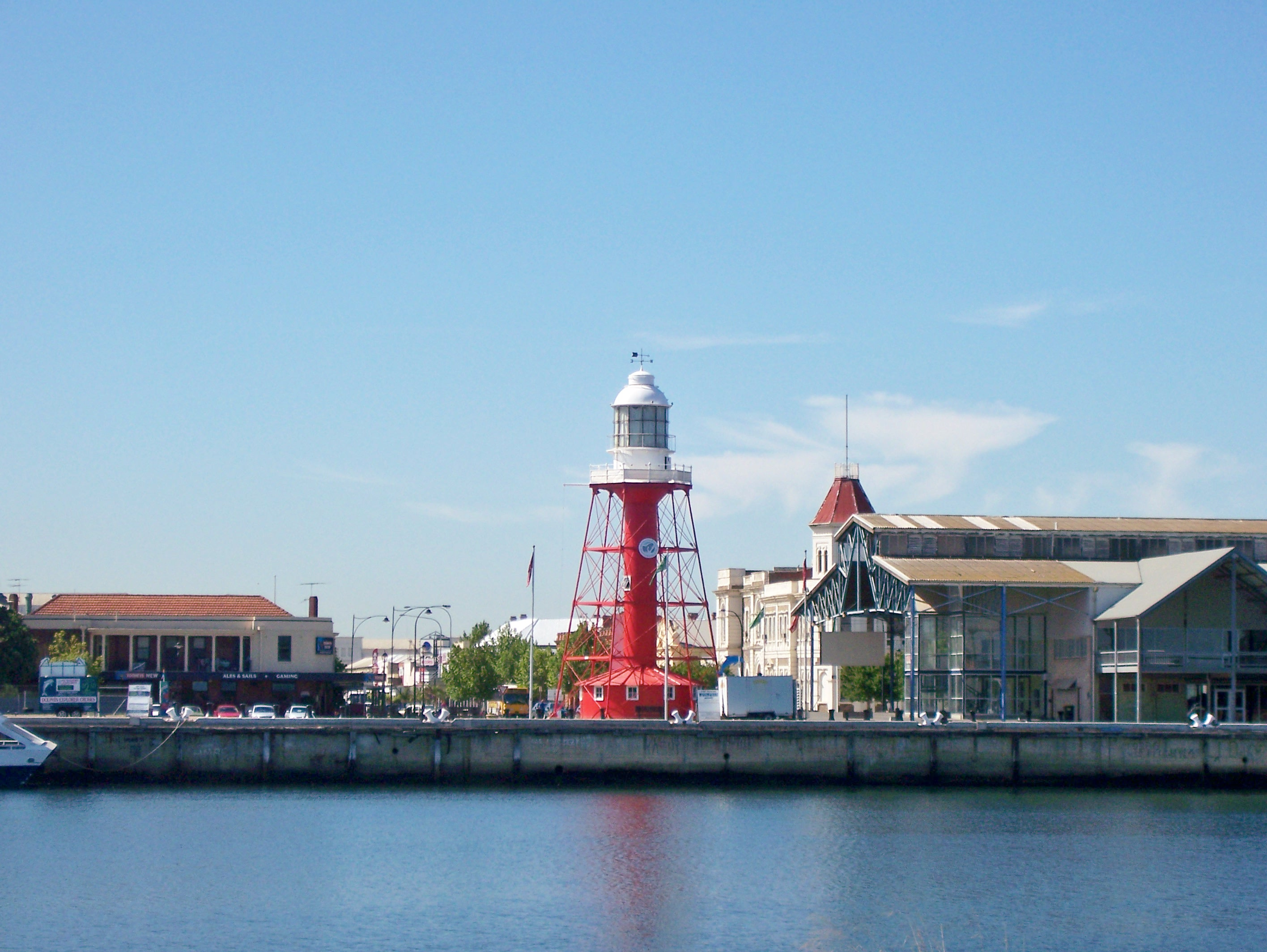 Port Adelaide from Birkenhead